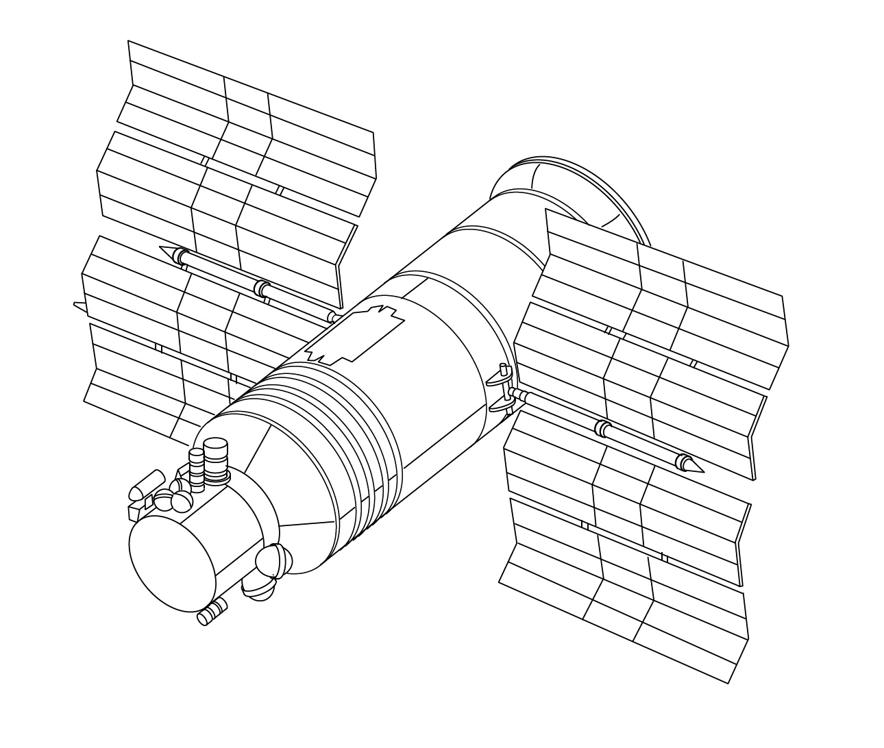 Figure 1-25. Progress-based Gamma astrophysical research satellite.